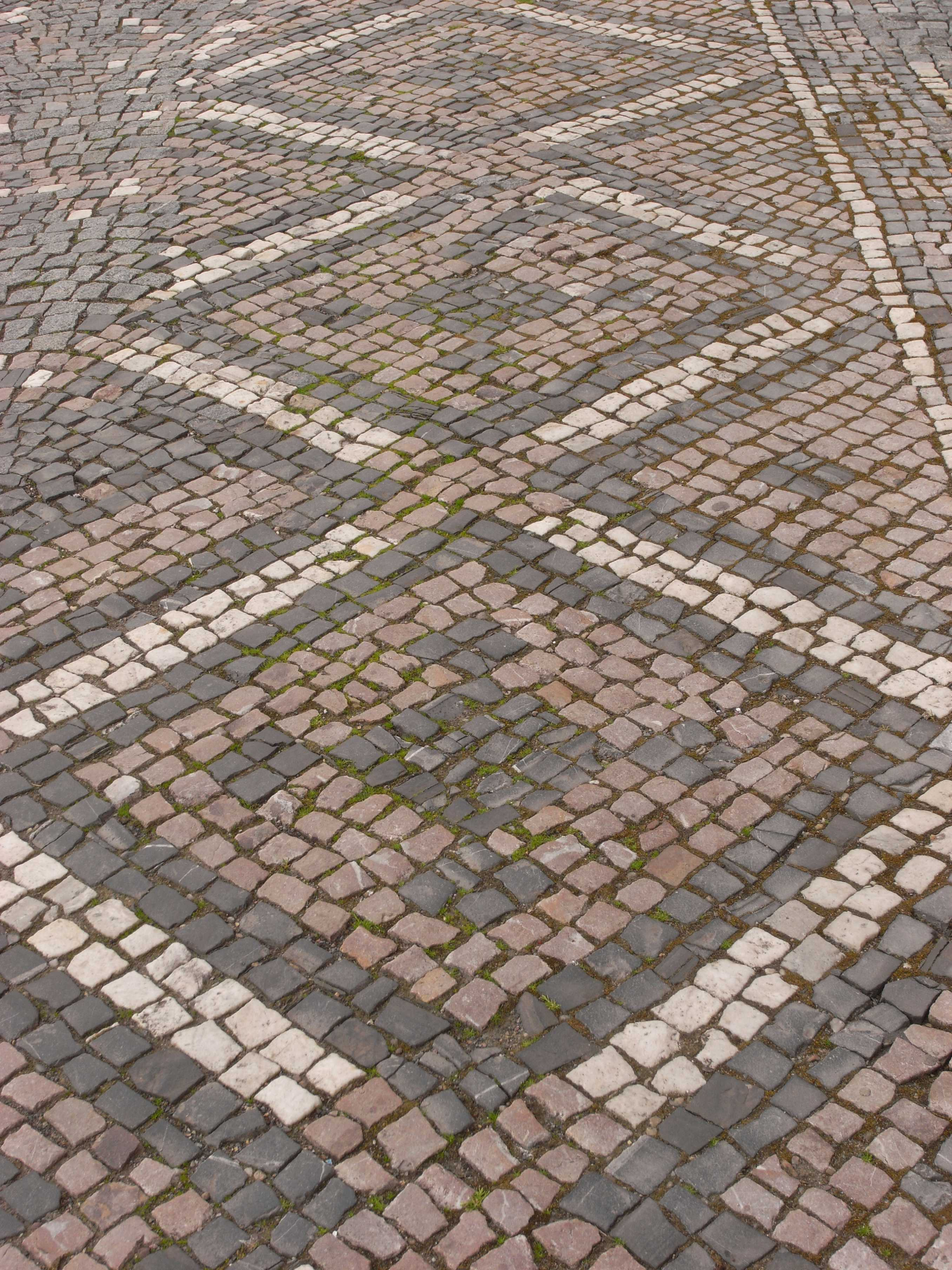 marble/limestone, cobbelstones in Hradec Králové (Czech Republic), handmade